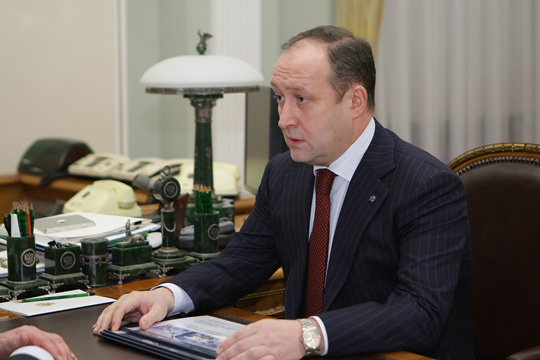 Sovcomflot President and CEO Sergei Frank during a meeting with Prime Minister Vladimir Putin